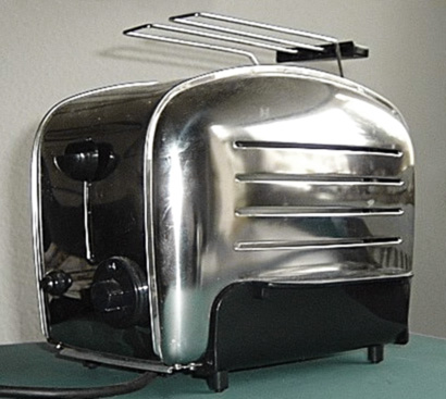 toaster Source:Peng 15:13, 15 May 2005 (UTC) selbst fotografiert am 19.10.04